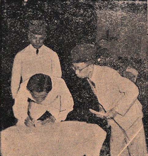 National Awakening Day celebrations